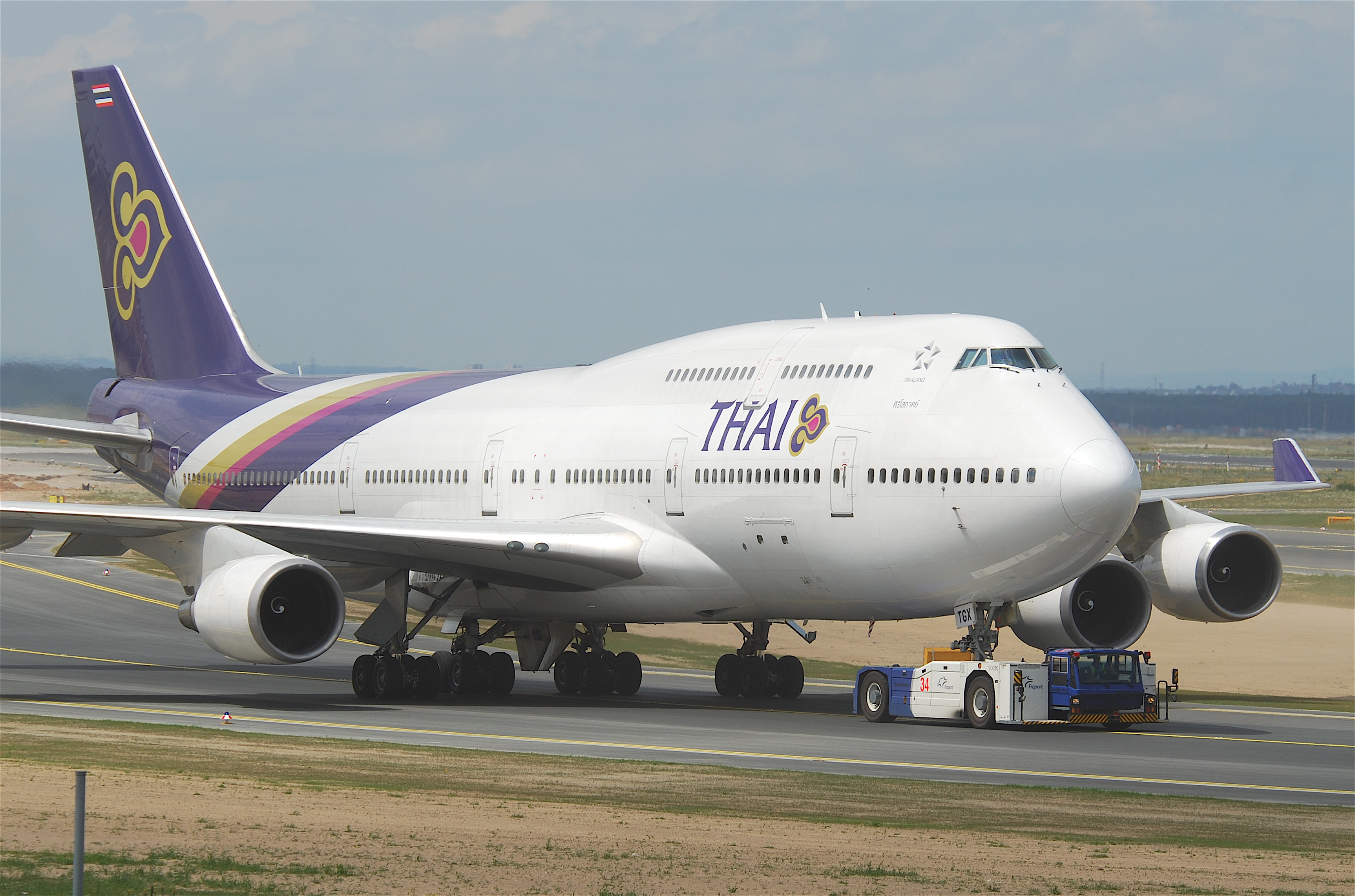 Thai Airways International Boeing 747-4D7; HS-TGX@FRA;06.07.2011/603me